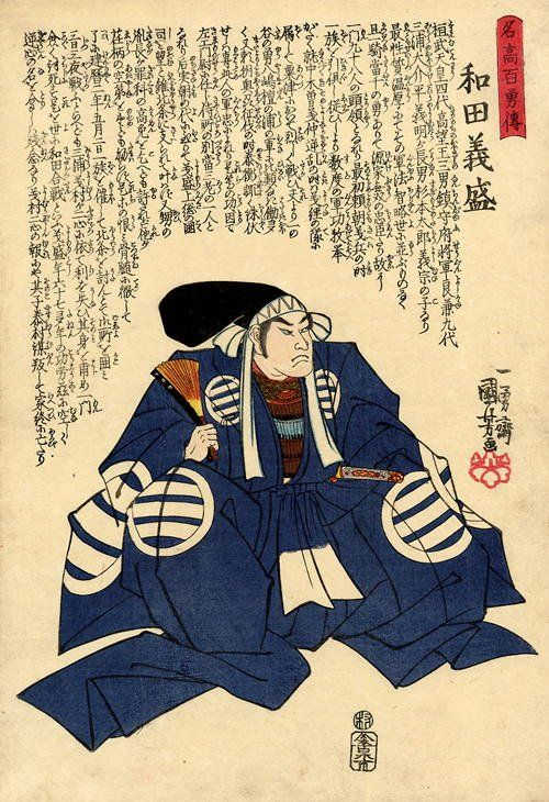 Picture by Kuniyoshi of Wada Yoshimori